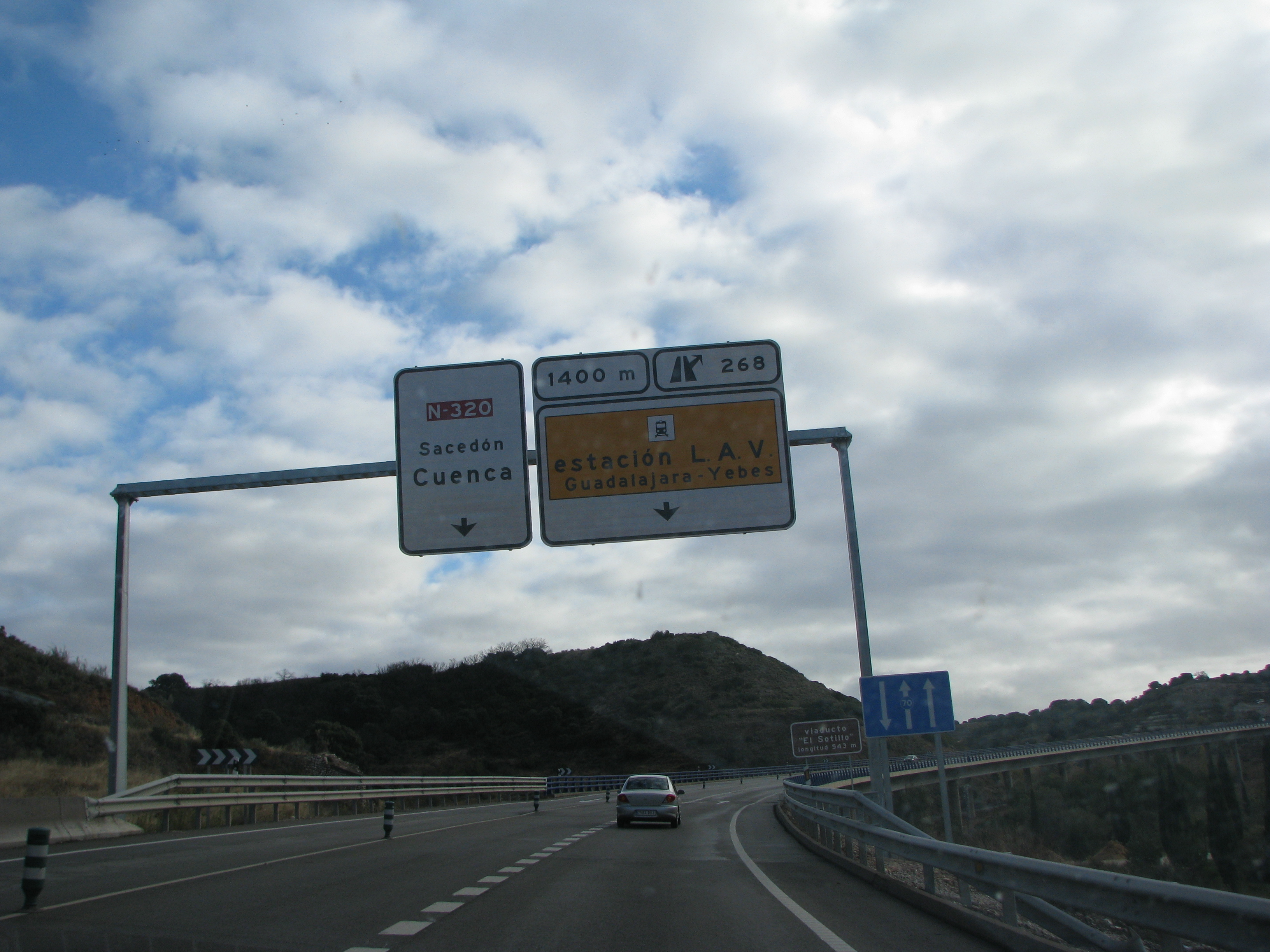 El Sotillo Viaduct, in N-320 for Guadalajara, Spain.